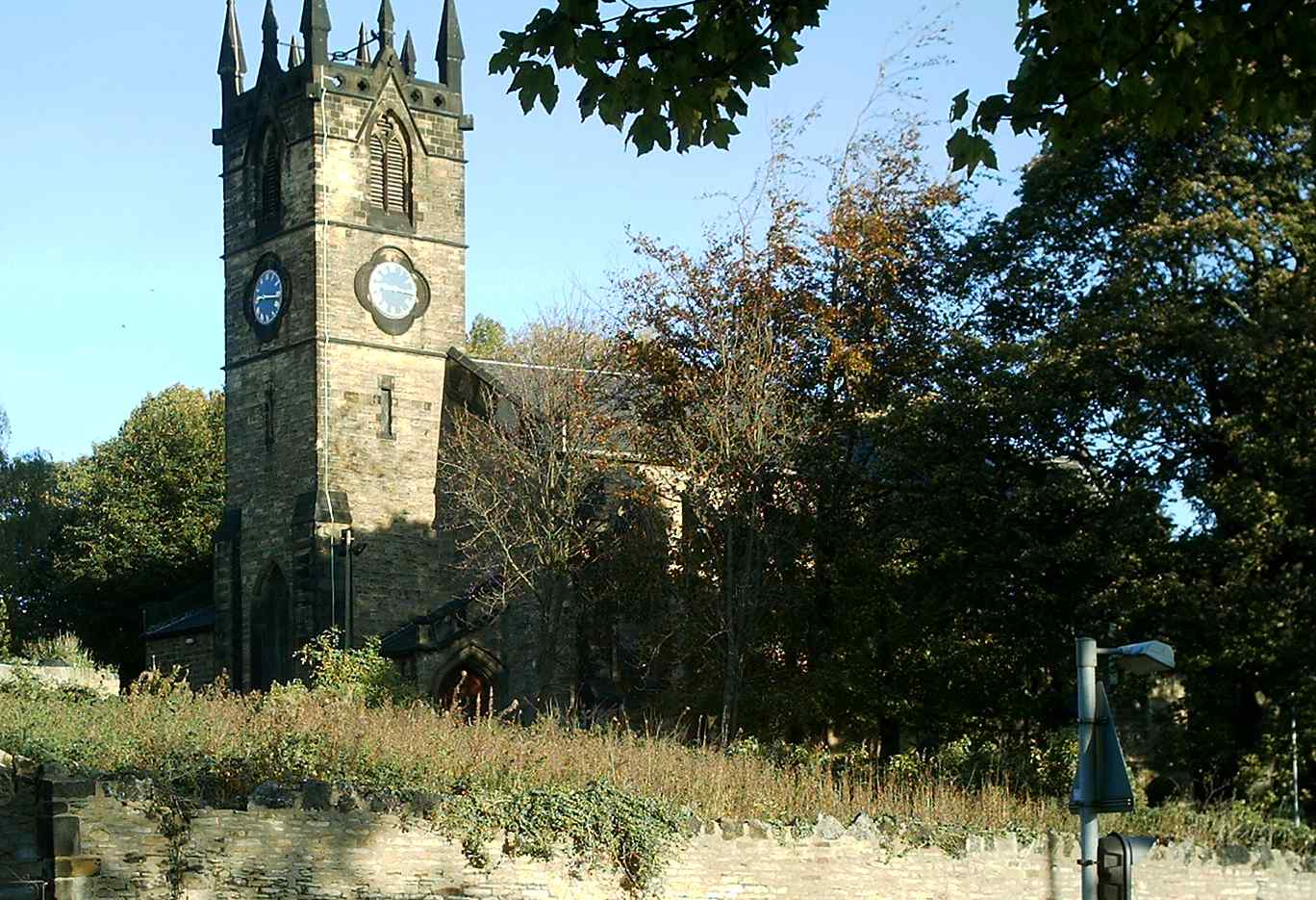 St Thomas church, Kimberworth. Author: Bert McGoogan